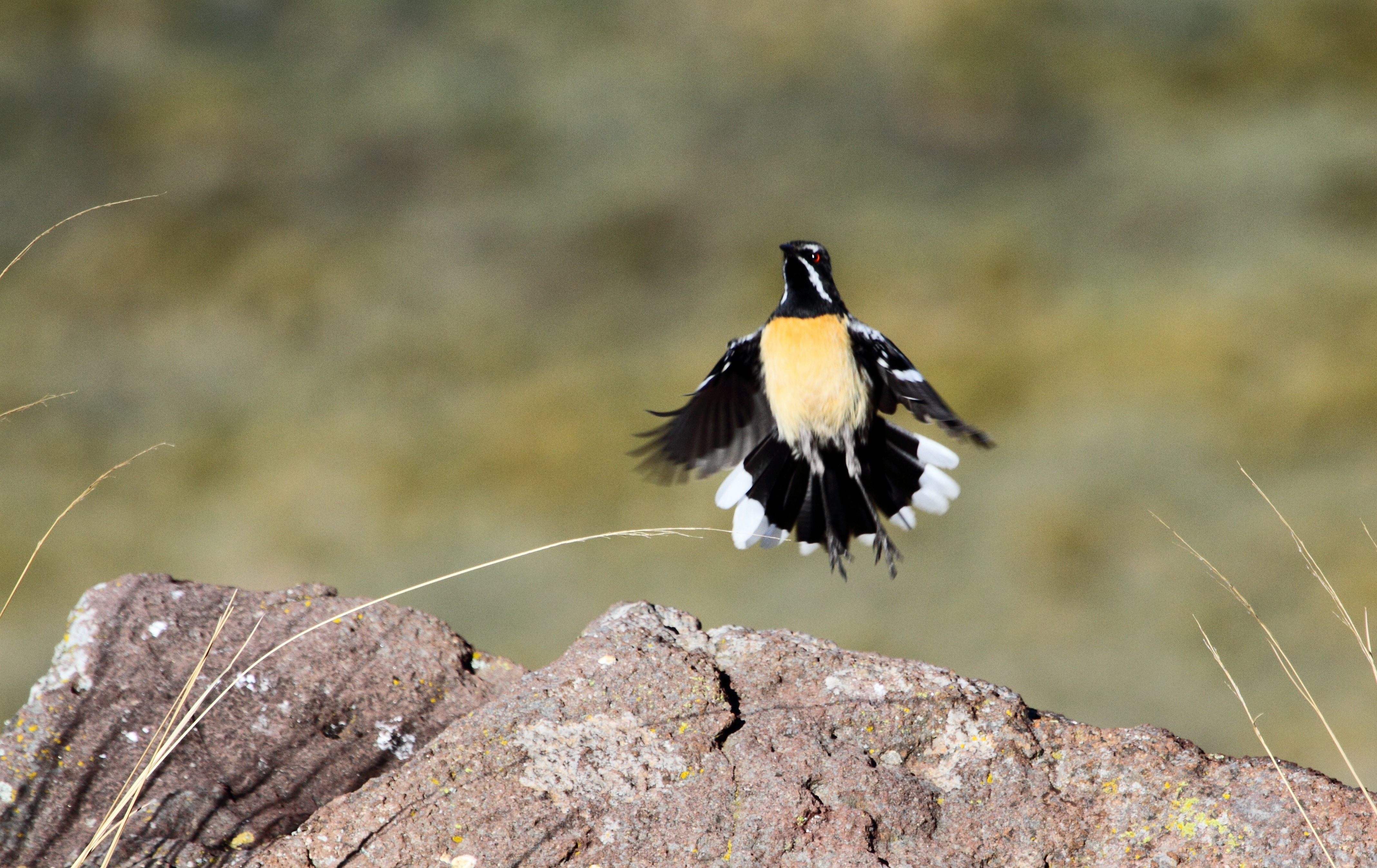 Male Drakensberg rockjumper Chaetops aurantius jumping. At Afriski, Butha-Buthe, Lesotho.